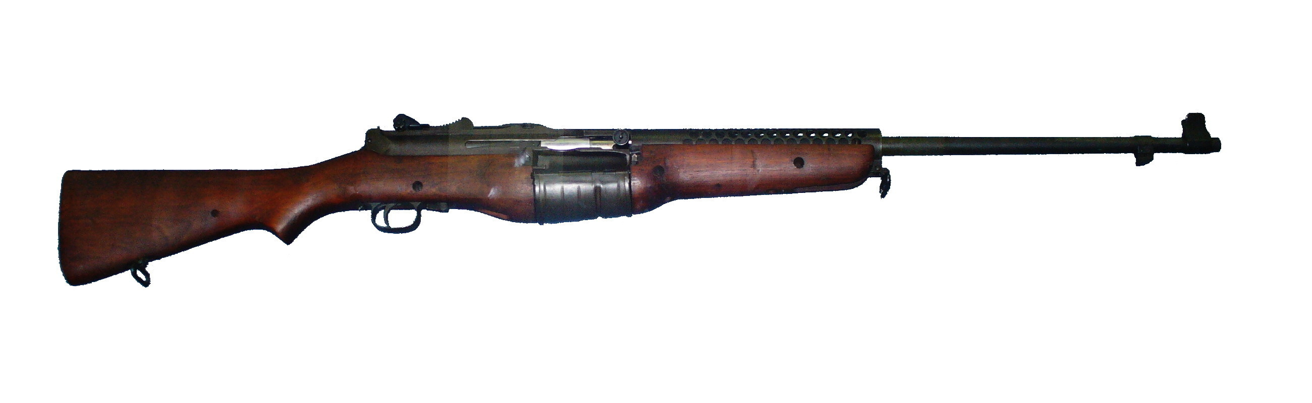 Johnson M1941, American self-loading rifle